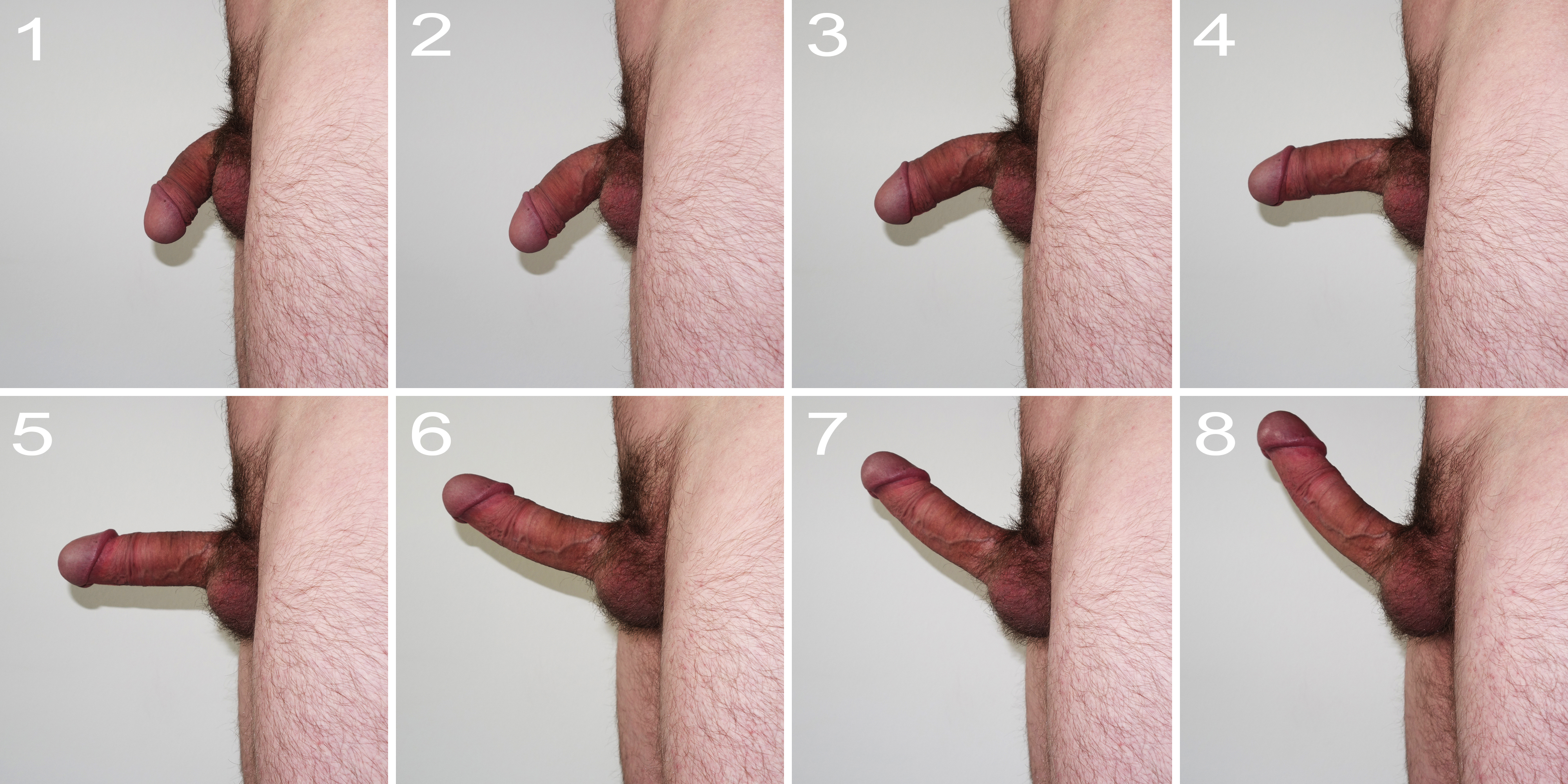 Steps of a human penis erection.